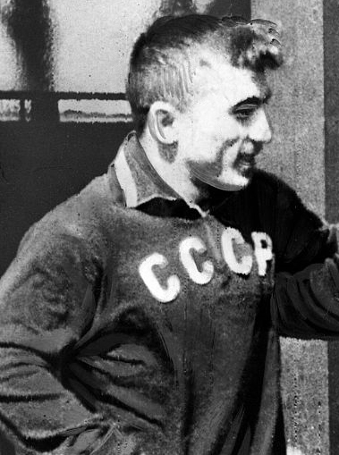 Wrestling Freestyle Ali Aliyev of Soviet Union greet at the Athlete Village ahead of the Rome Summer Olympic Games on August 22, 1960 in Rome, Italy.